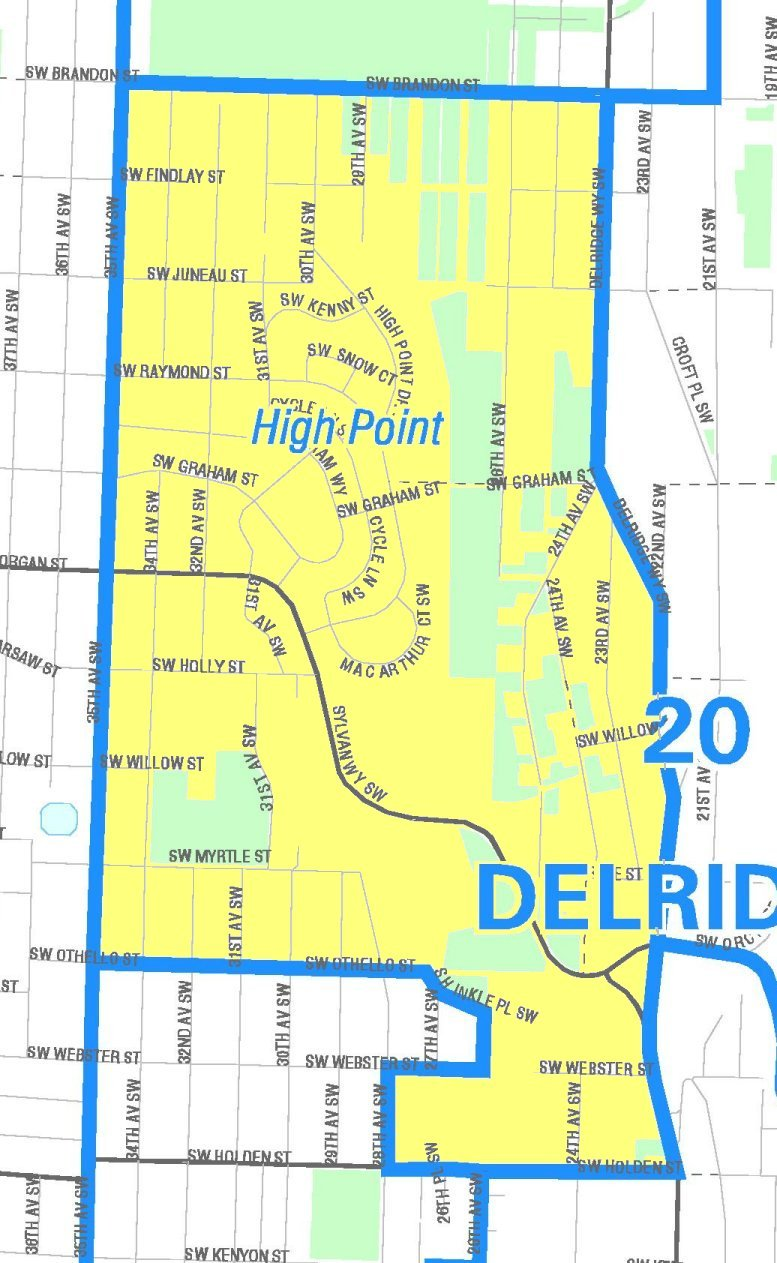 Map of Seattle's High Point neighborhood. Like the other maps from the Seattle City Clerk's Neighborhood Map Atlas, this is not an official map; in particular, borders are not official. Disclaimer: The Seattle Neighborhood Atlas, which the Seattle Clerk's Office has placed in the public domain (as confirmed by OTRS ticket 2008033110016048) contains some general commentary on the maps, "About Maps", which should typically be linked as an accompaniment to these maps to (in their words) "minimize the numerous 'complaints' or comments by users who feel it necessary to point out how the Clerk's Office is 'wrong' about a certain section of town." In particular, "About Maps" says that the atlas "is designed for subject indexing of legislation, photographs, and other documents in the City Clerk's Office and Seattle Municipal Archives" and "is not designed or intended as an 'official' City of Seattle neighborhood map. There are many different ideas of what neighborhood districts exist in Seattle and what their names are…"